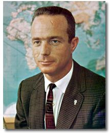 NASA astronaut Malcolm Scott Carpenter, original Mercury astronaut, pilot of the Mercury-Atlas 7 (Aurora 7) mission, and SEALAB II aquanaut. NASA photo in public domain.